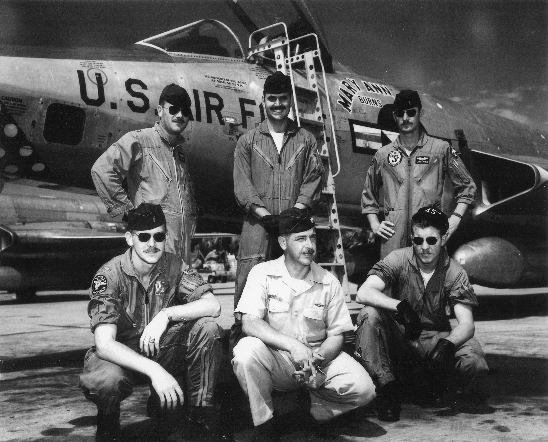 The first six U.S. Air Force "Able Mabel" pilots from the 45th Reconnaissance Squadron, Misawa Air Base, Japan, at Don Muang RTAFB, Bangkok, Thailand in front of the McDonnell RF-101C-65-MC Voodoo (s/n 56-079, "Mary Ann Burns"), in December 1961. Front row (left to right): 1Lt Fred Muesegaes, Maj Ken Harbst, Detachment Commander (45tj TRS Ops Officer), 1Lt Jack Weatherby; Back row (left to right): Capt Ralph DeLucia, Capt Bill Whitten, 1Lt John Linihan. Muesegaes, Weatherby, Linihan, and Whitten (in chronological order) flew the RT-33A previously on "Field Goal". On 29 October 1961, four RF-101s and ground crews from the 45th TRS were ordered by the U.S. Joint Chiefs of Staff to deploy to Don Muang ("Able Mable Reconnaissance Task Force"). The aircraft were reay on 7 November and began flying reconnaissance sorties over Laos the next day.